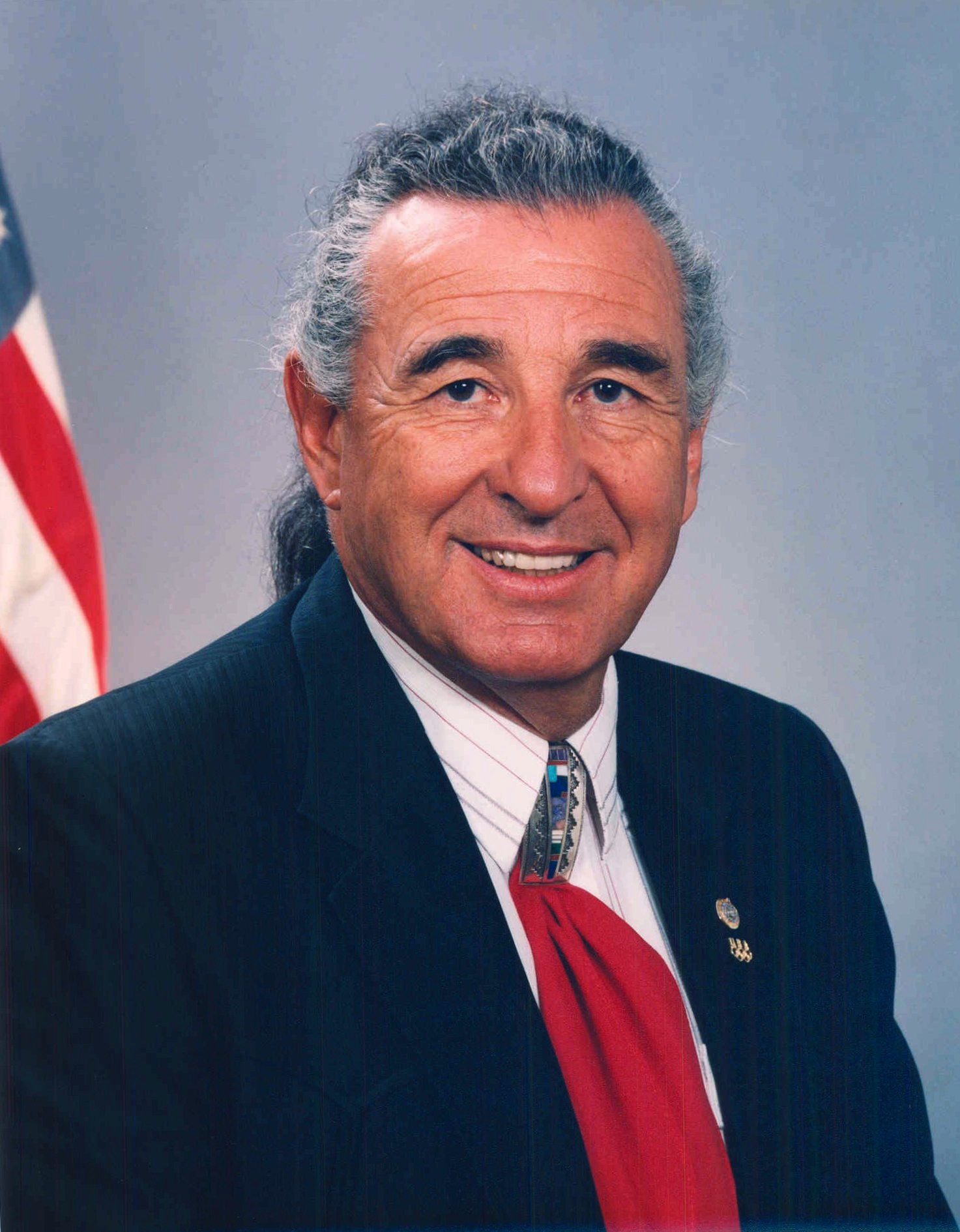 Ben Nighthorse Campbell, former member of the United States Senate from Colorado (1993-2005)